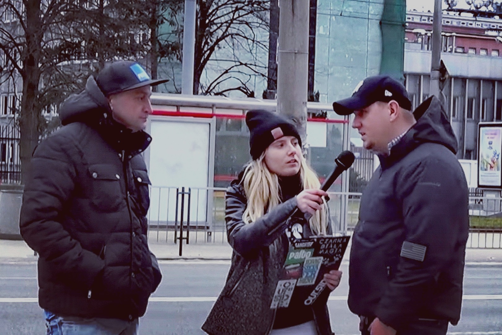 Picture of Trials X interview for Raputacja YouTube program, in which the band tells about the beginnings of rap music in Poland in a mid 90s.